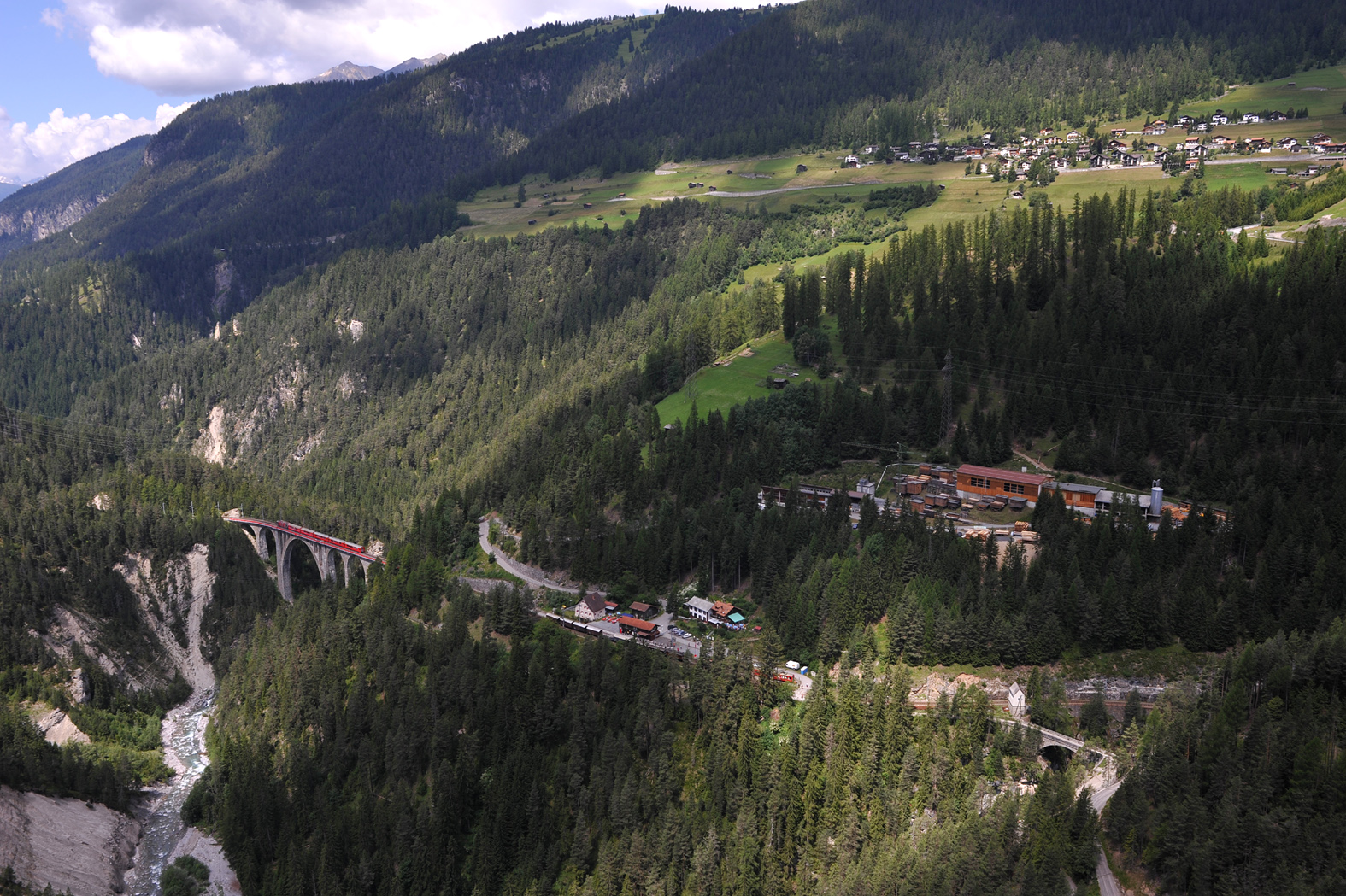 View from the road to Jenisberg to Wiesen, Wiesen RhB station and the viaduct of Wiesen; right below the Jenisberg bridge; Graubünden, Switzerland.